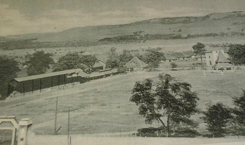 Overwiev from shouth